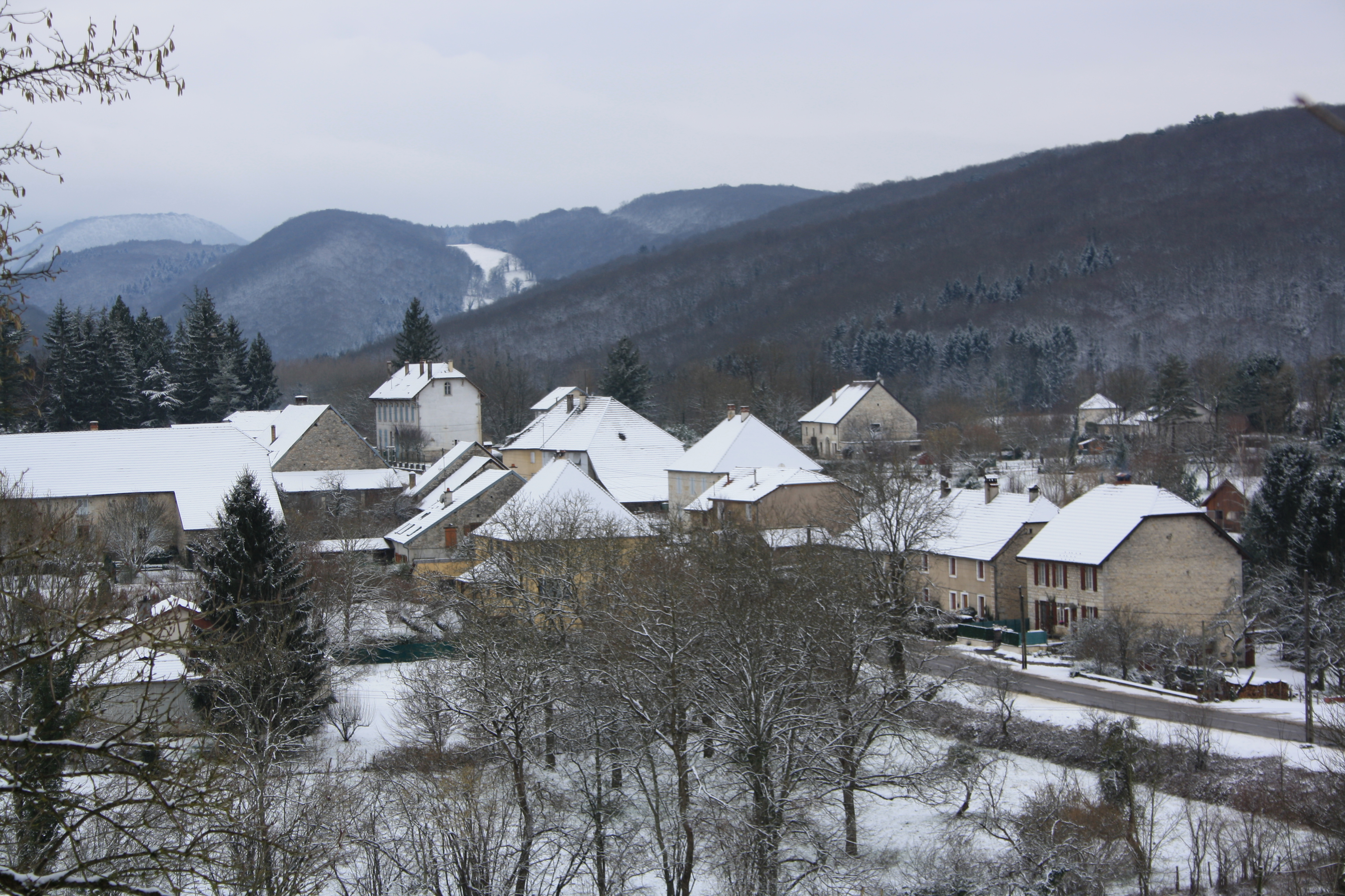 View of La Chapelle-sur-Furieuse, a village in Jura, France.